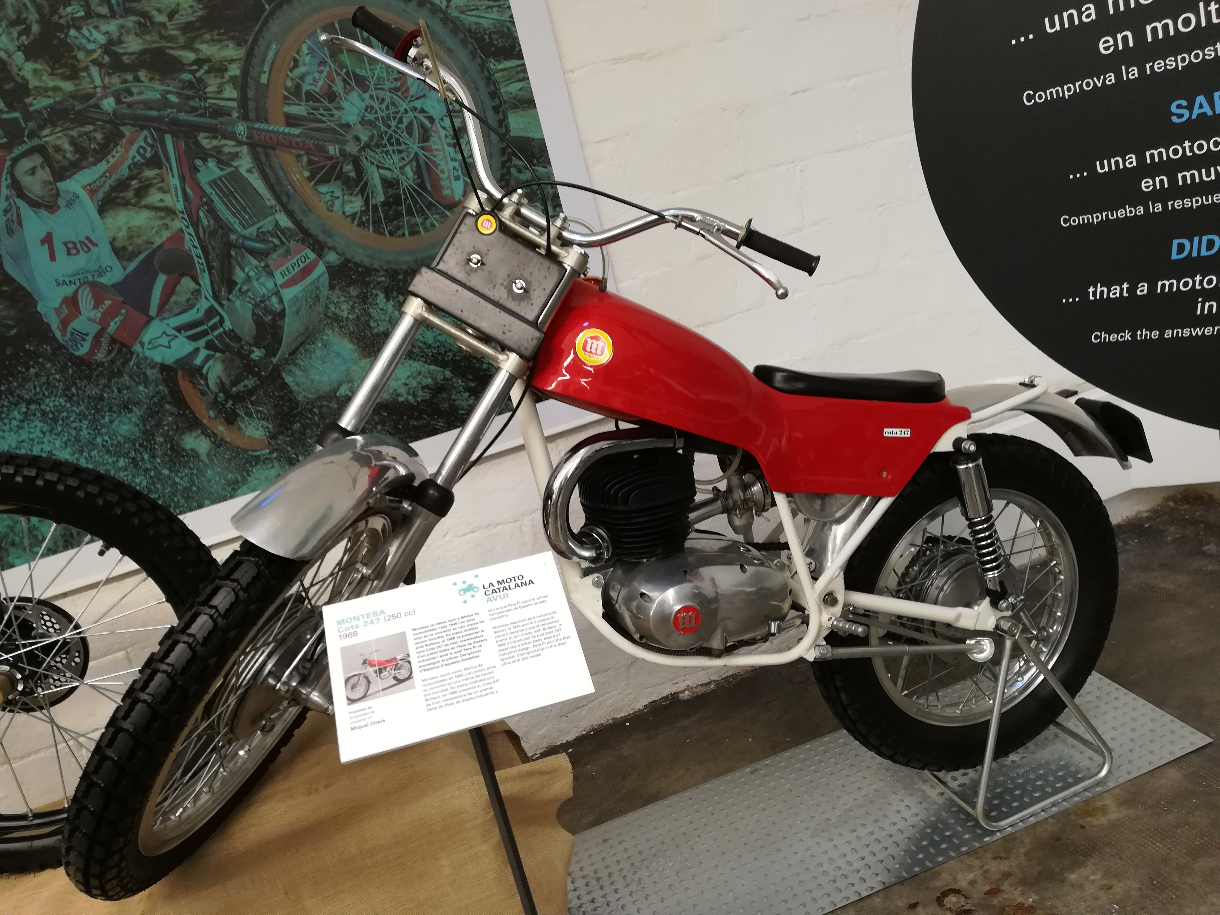 Montesa Cota 247 (1968)Museu de la Moto de Barcelona (Catalonia). (The filename is wrong)